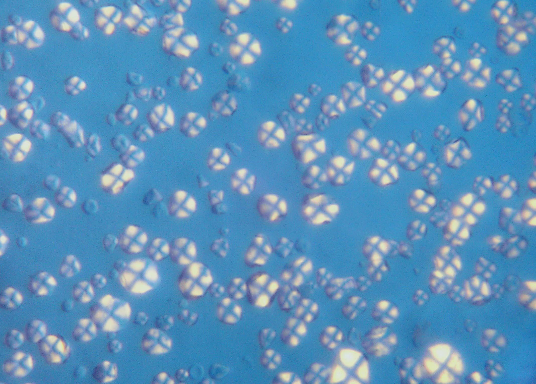 Cornstarch at 800x with polarizer filter. Excerpt size: 200µm x 150µm.